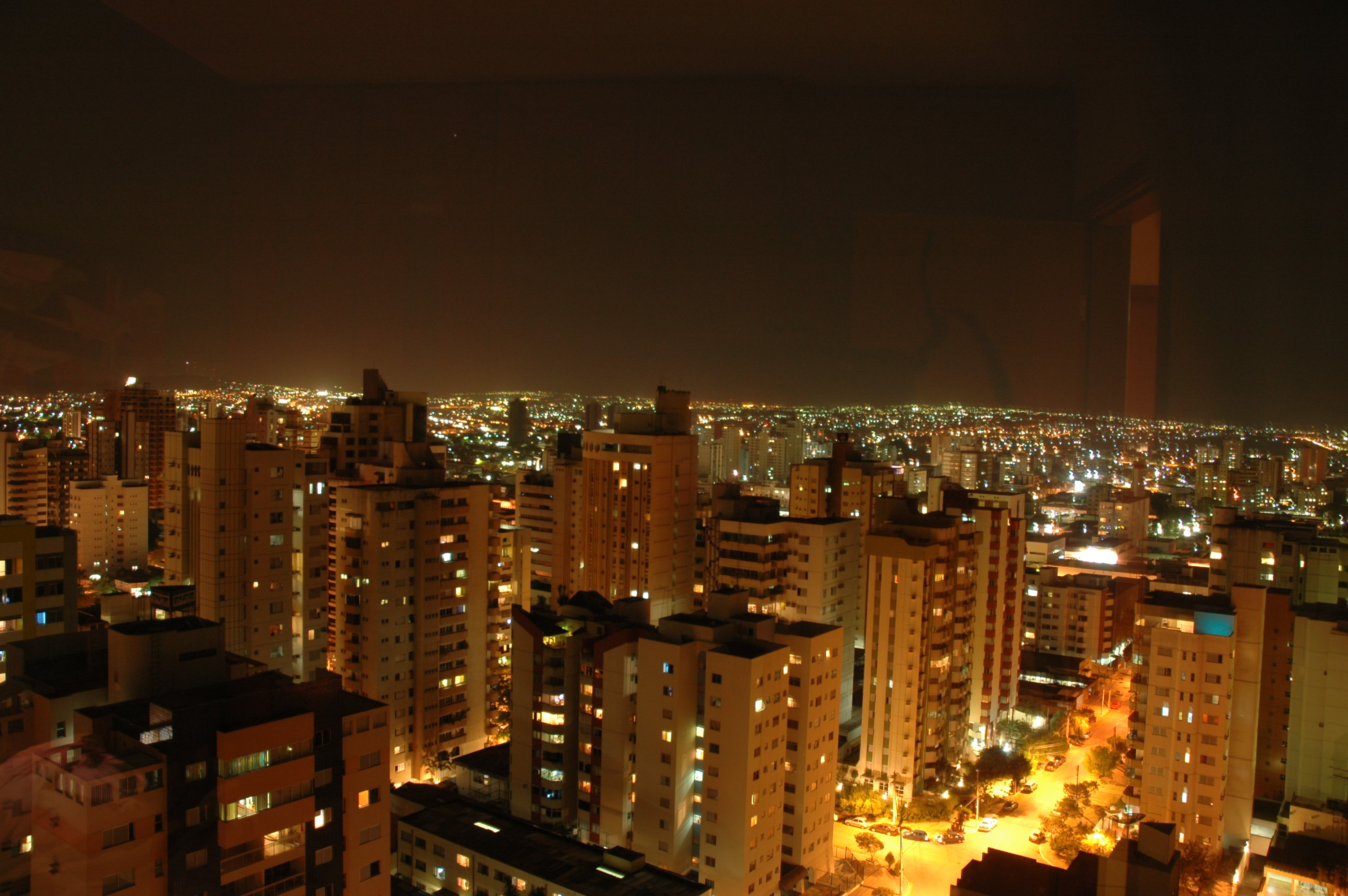 Goiânia, Brasil - This is the view of my apartment, specificilly from my room.